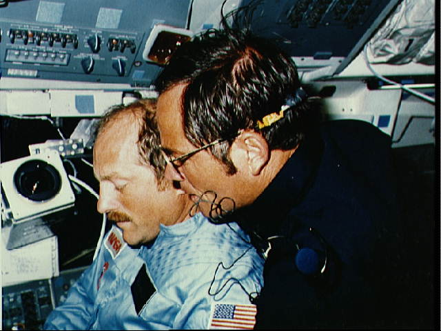 On forward flight deck, Pilot Hauck, wearing light blue constant wear garment and sitting in pilots seat, reviews flight procedures as Commander Crippen, wearing glasses, looks over his shoulder. On Hauck's right is bracket-mounted field sequential (FS) crew cabin camera. Forward pilots stations controls, checklists, windows, and equipment surround Hauck. Crippen's earphone freefloats at his shoulder.